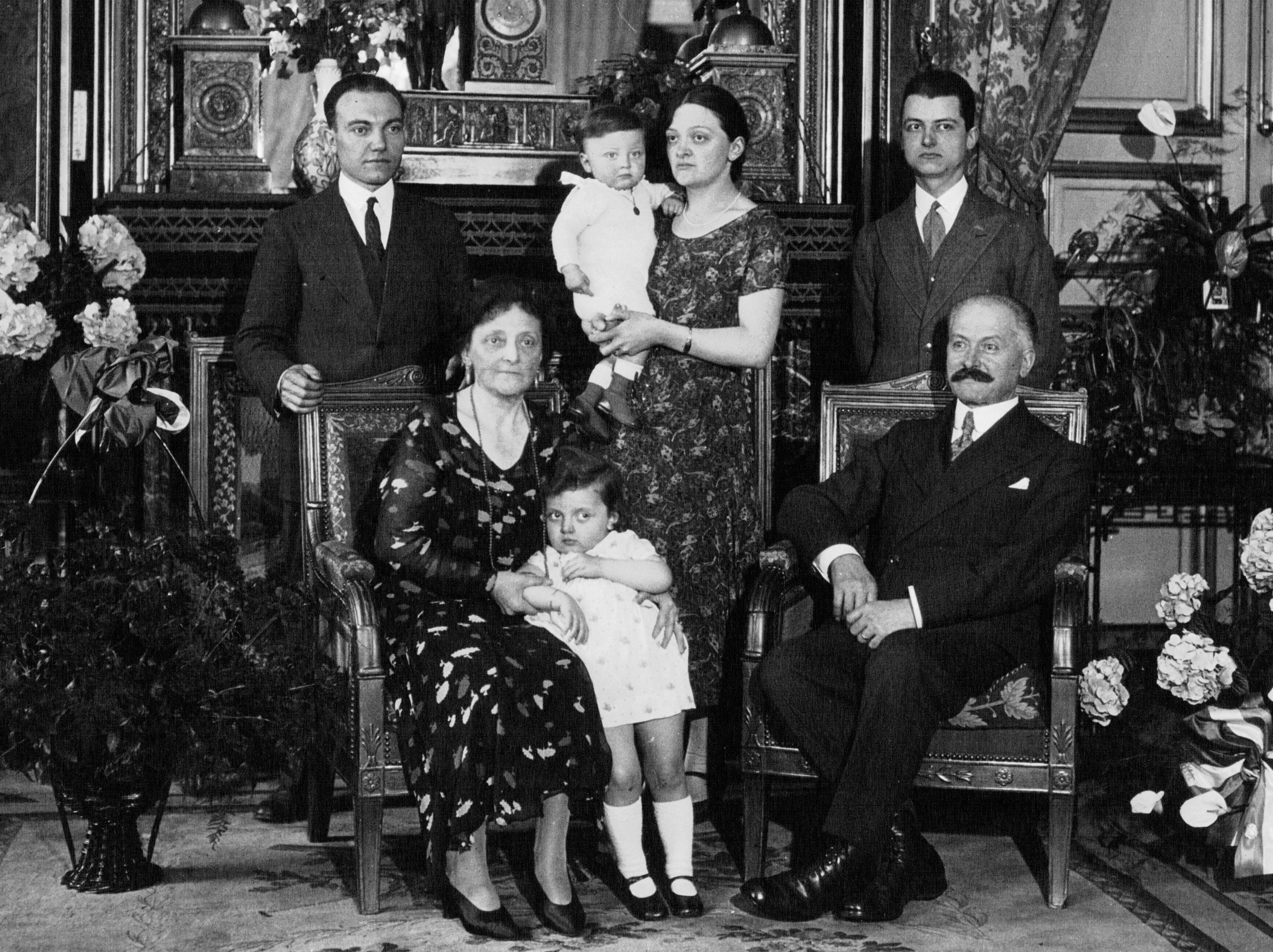 French President Albert Lebrun (1871-1950) with his children and grandchildren.